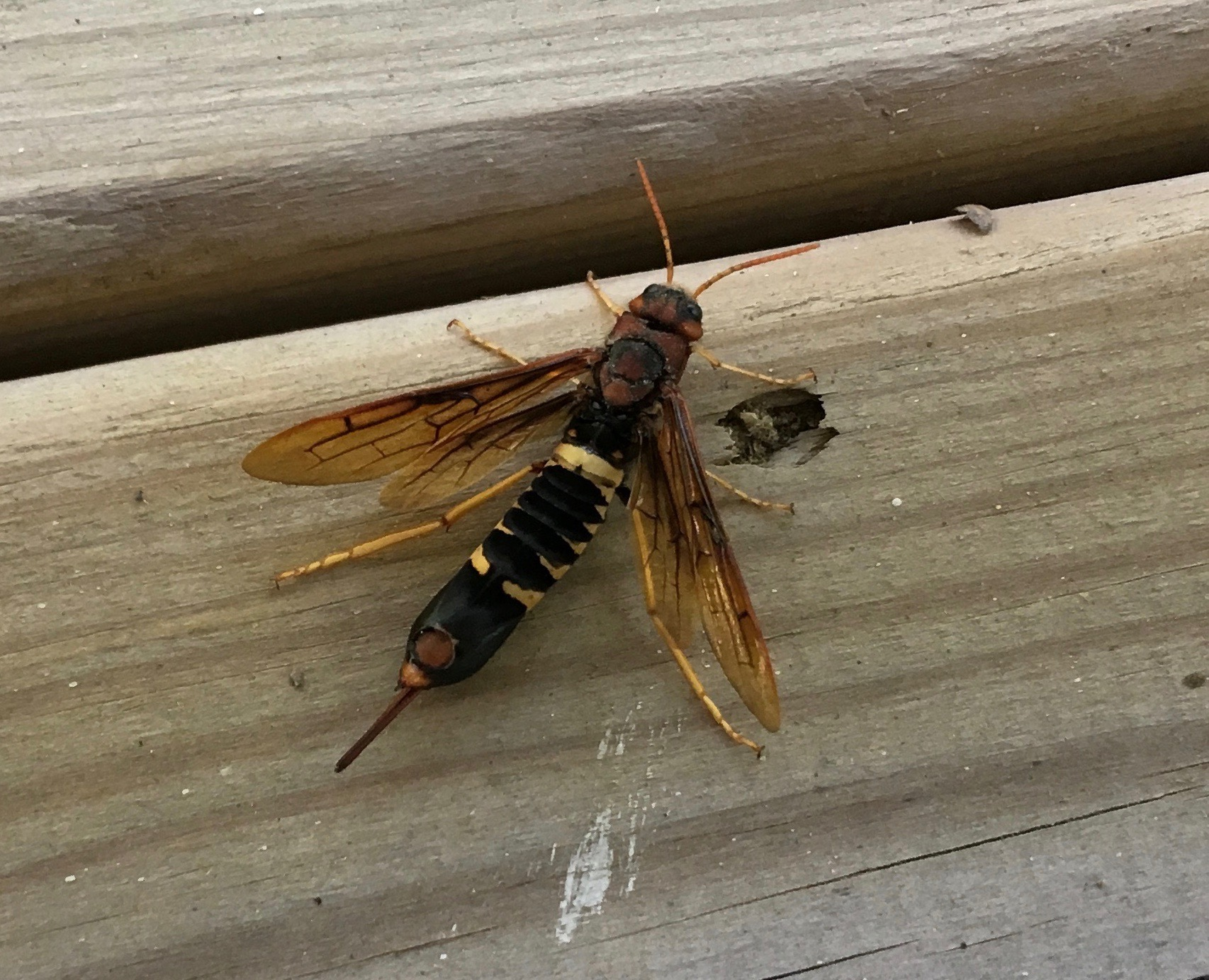 Family Siricidae, order Hymenoptera, common name horntail wasp or wood wasp